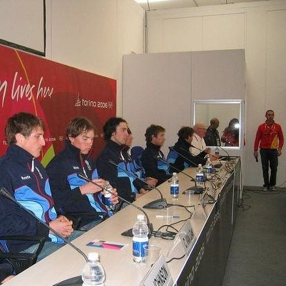 2006 Olympics